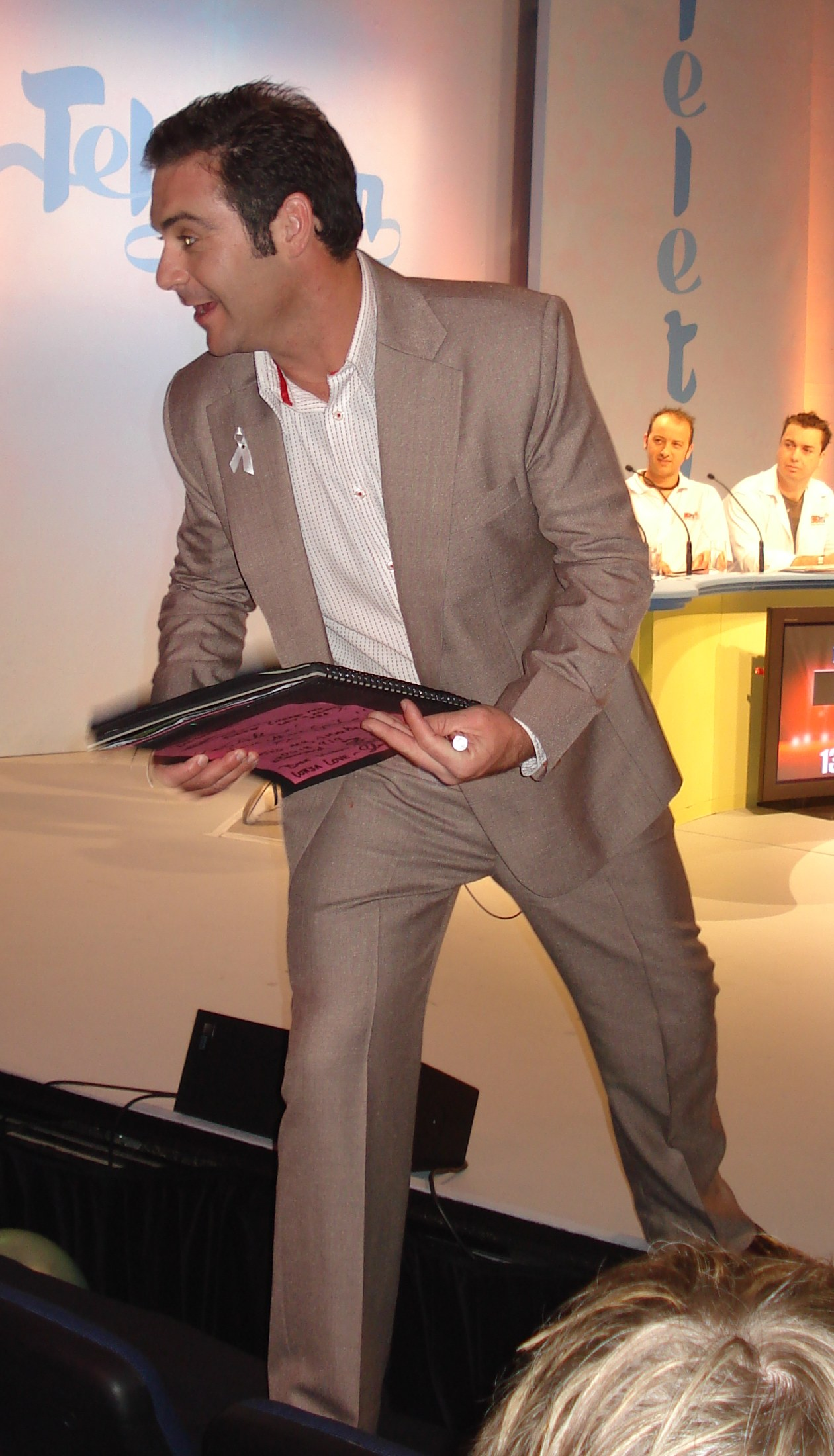 Andrew O'Keefe at Telethon 2006 in the Perth Convention Exhibition Centre, Perth.